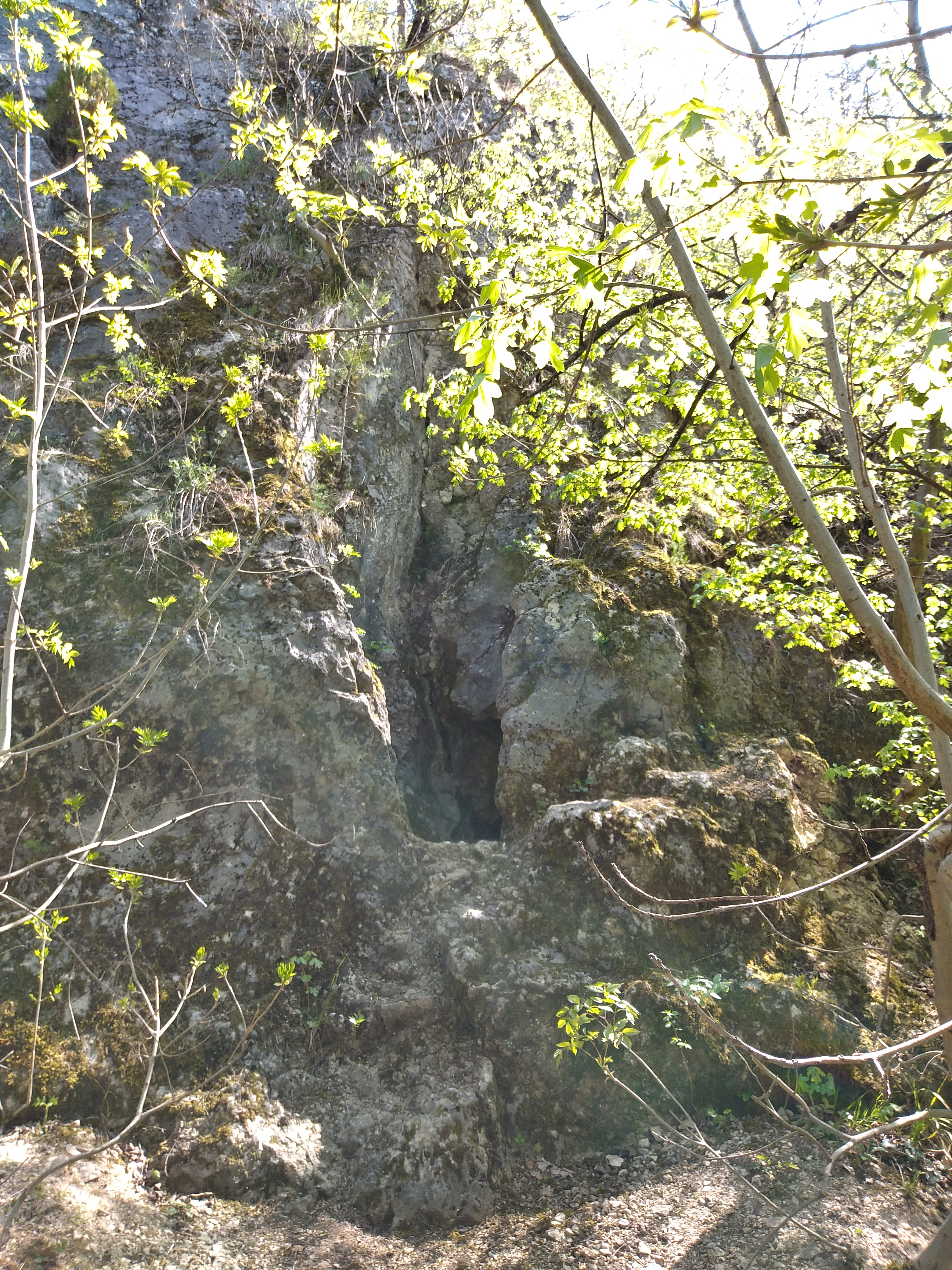 Tamás Cave entrance in Csobánka, Hungary.